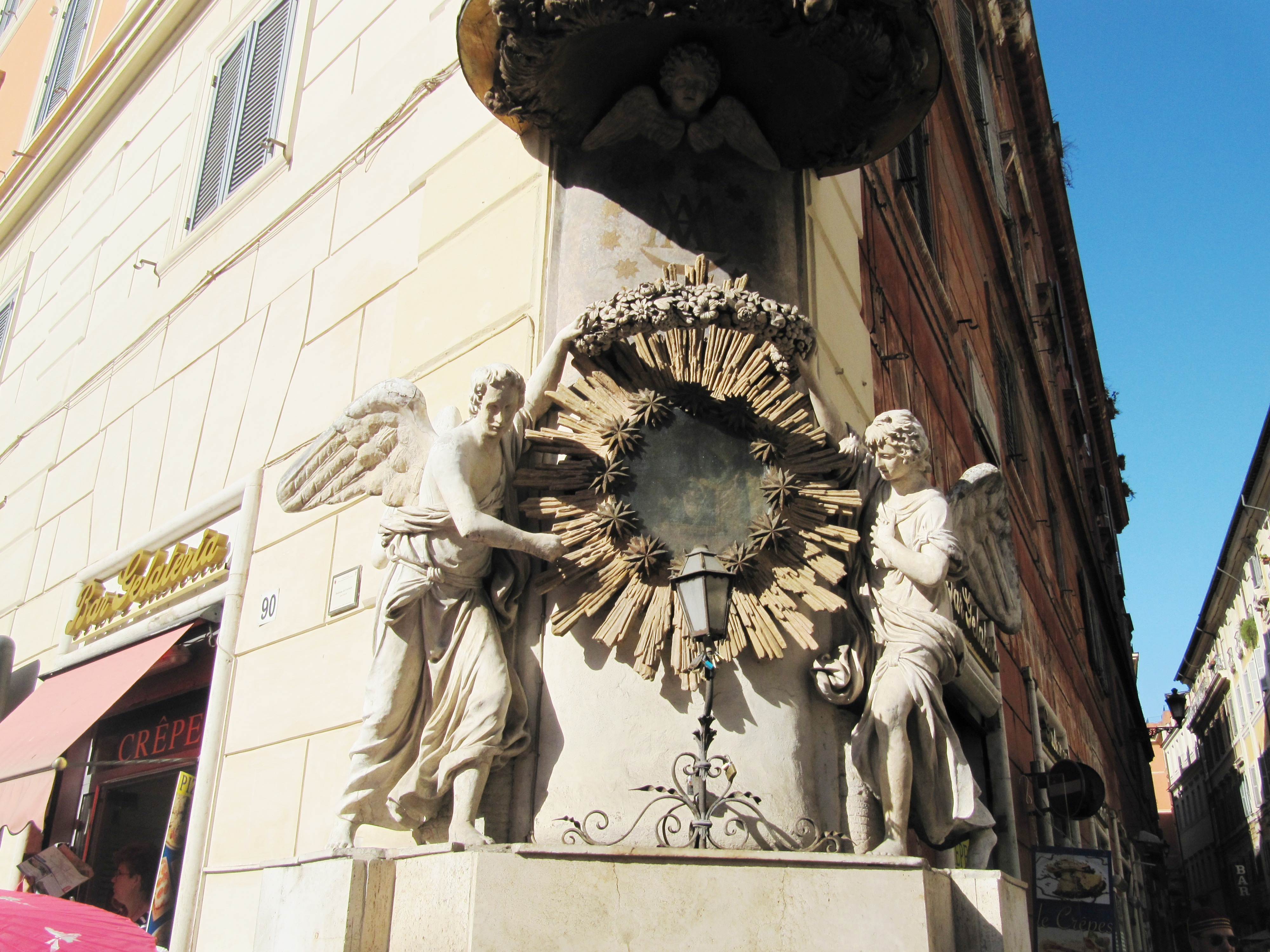 Rome, Italy.